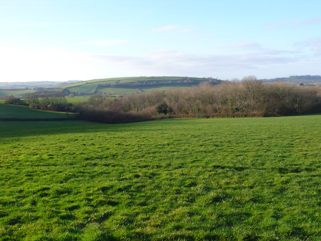 Horse Close Wood Alton Common This wood occupies a large part of the grid square just west of Buckland Newton.In the background is Buckland Newton Knoll